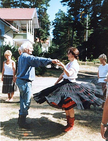 Prof. Bernhard Wosien and Friedel Kloke-Eibl in Sweden 1982